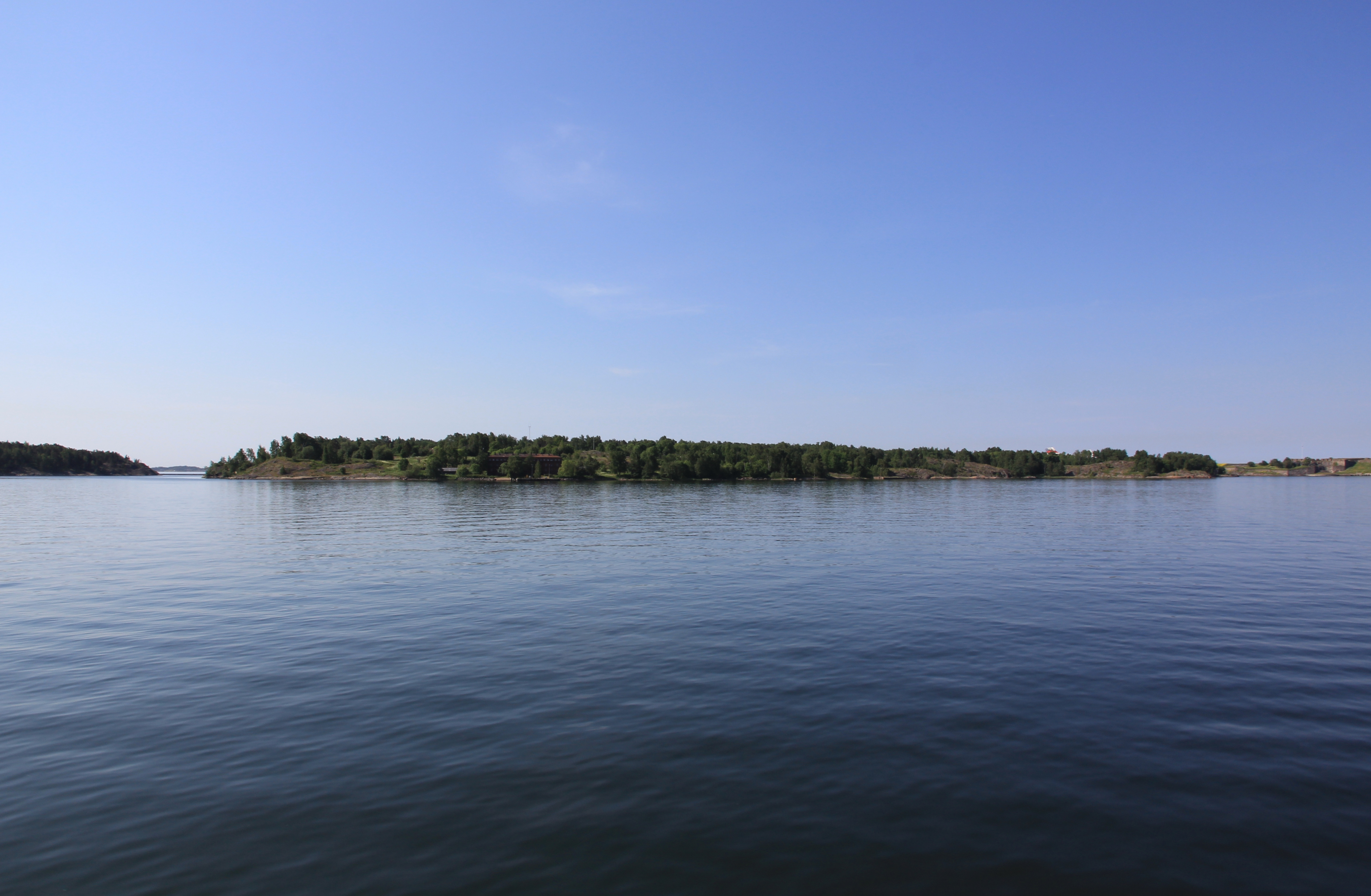 Vallisaari island in Helsinki. On the left is Kuninkaansaari island, with Kukisalmi strait and the causeway between Kuninkaansaari and Vallisaari. On the right is Suomenlinna.